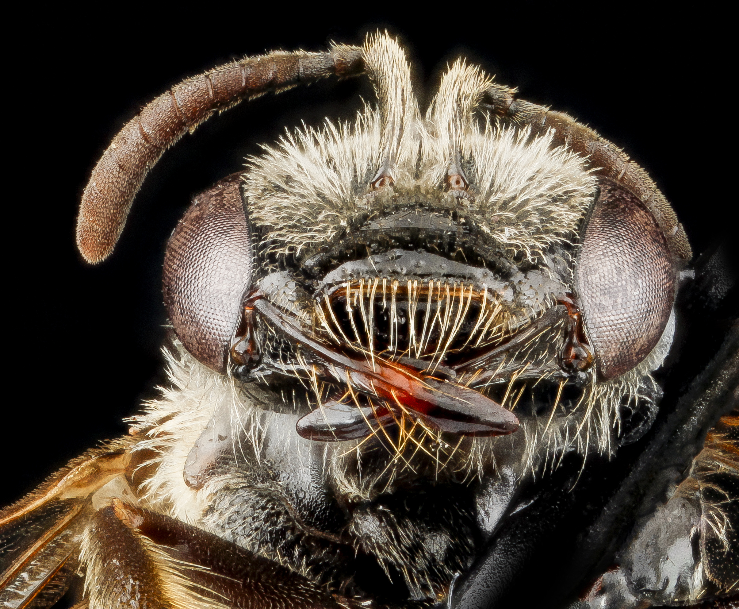 Virginia, Page County